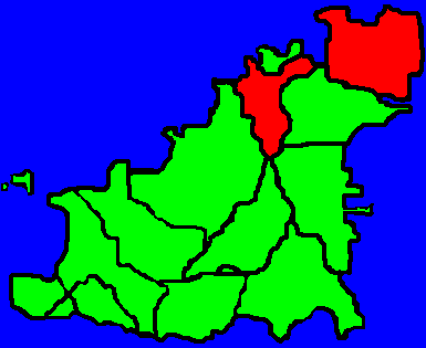 This map shows the position of Vale in relation to the rest of Guernsey.